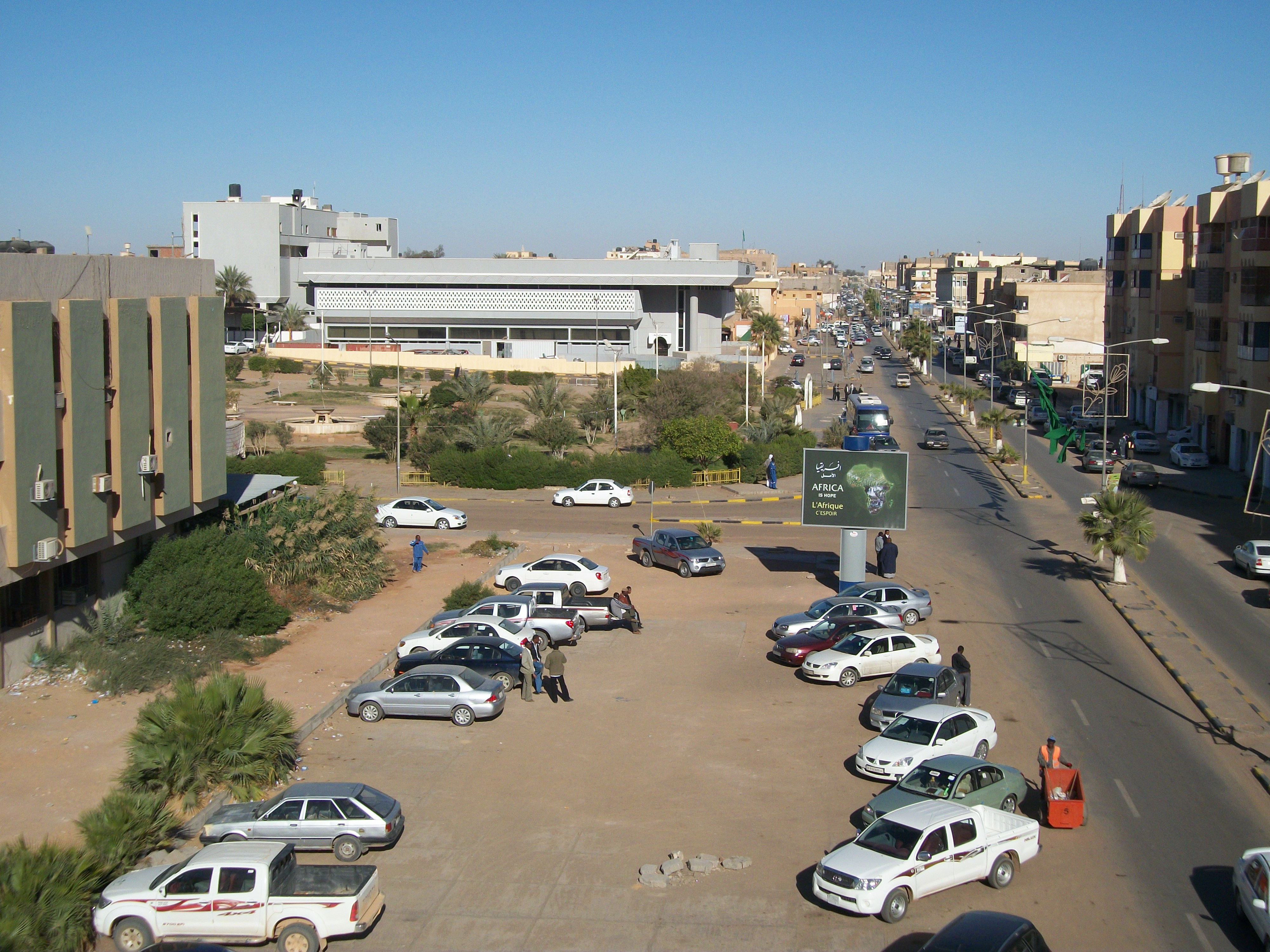 Sebha, Fezzan, Lybia. City centre. Main avenue, parking lot and Central Bank building seen from Kazem hotel